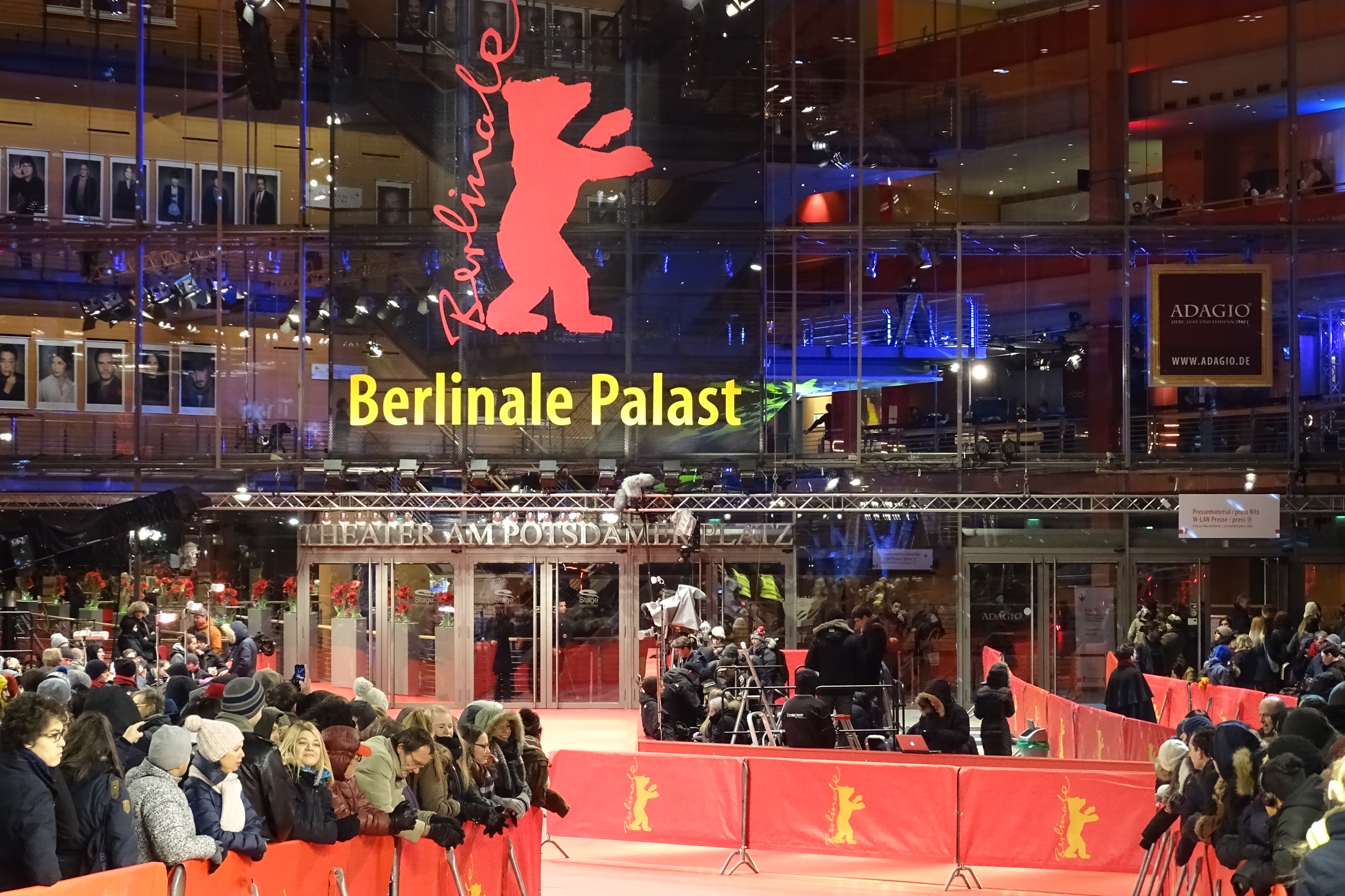 Berlinale Palast and red carpet before opening of Knight of Cups on 2015-02-08